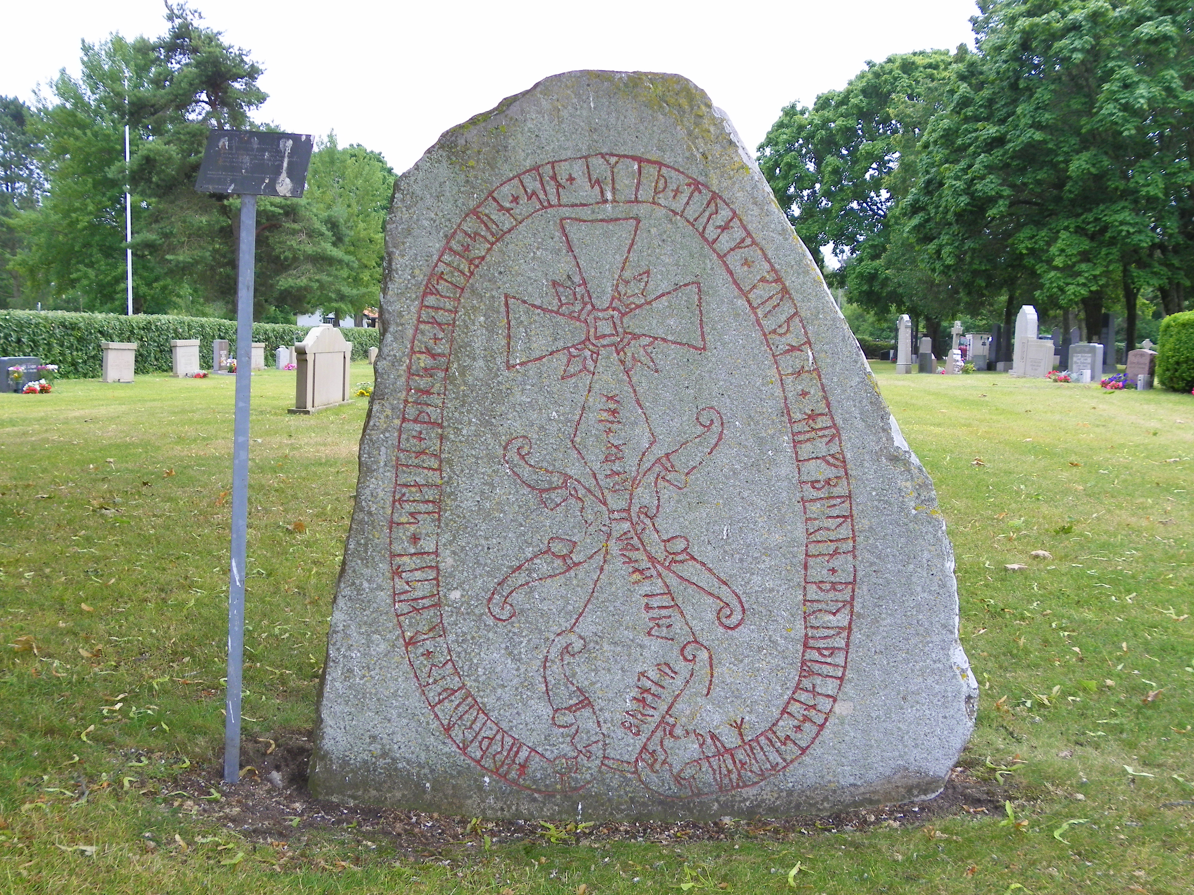 Runestone at the church of Gårdby, Öland, Sweden.